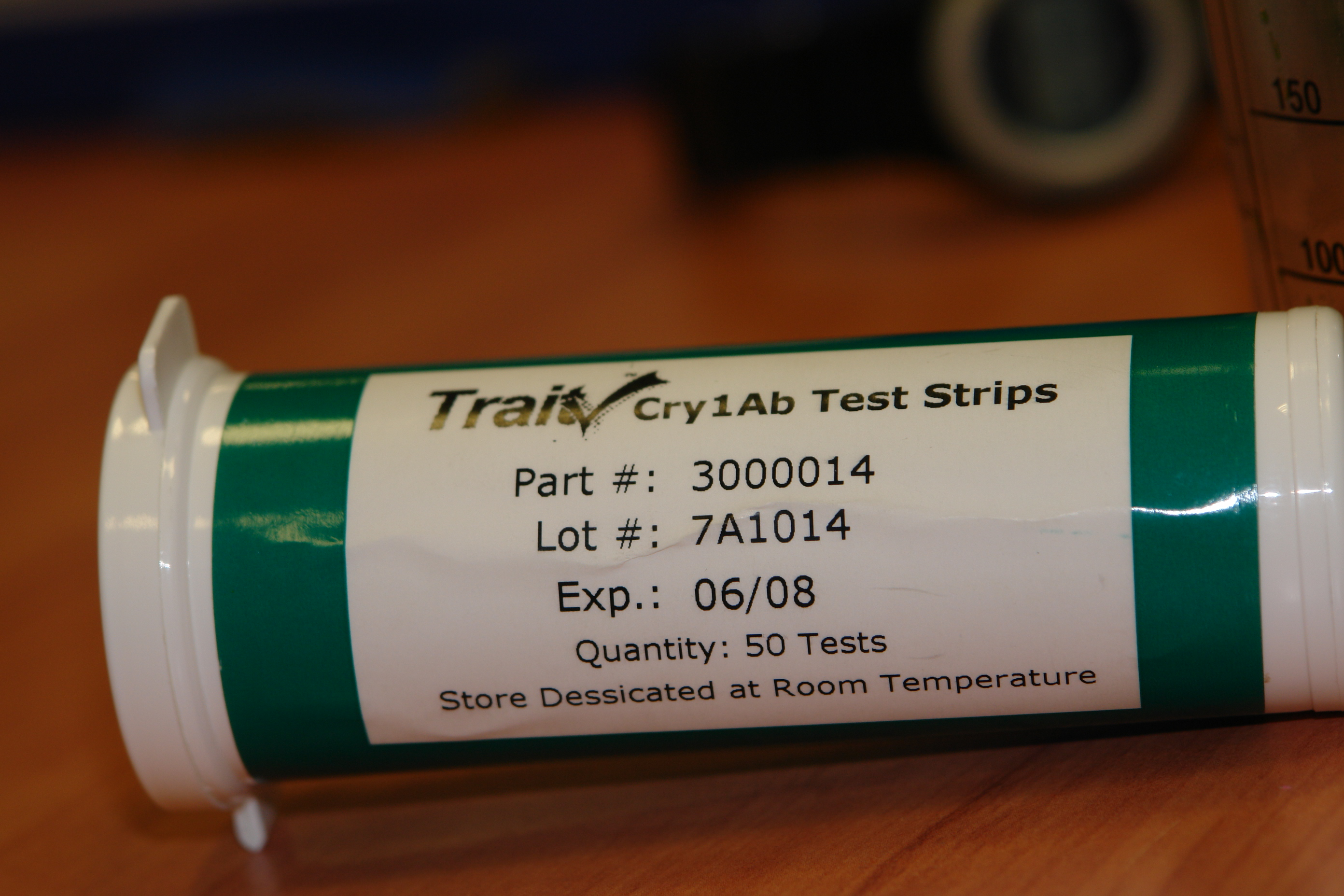 GMO maize test, Bourgouin-Jallieu, Isère, France.